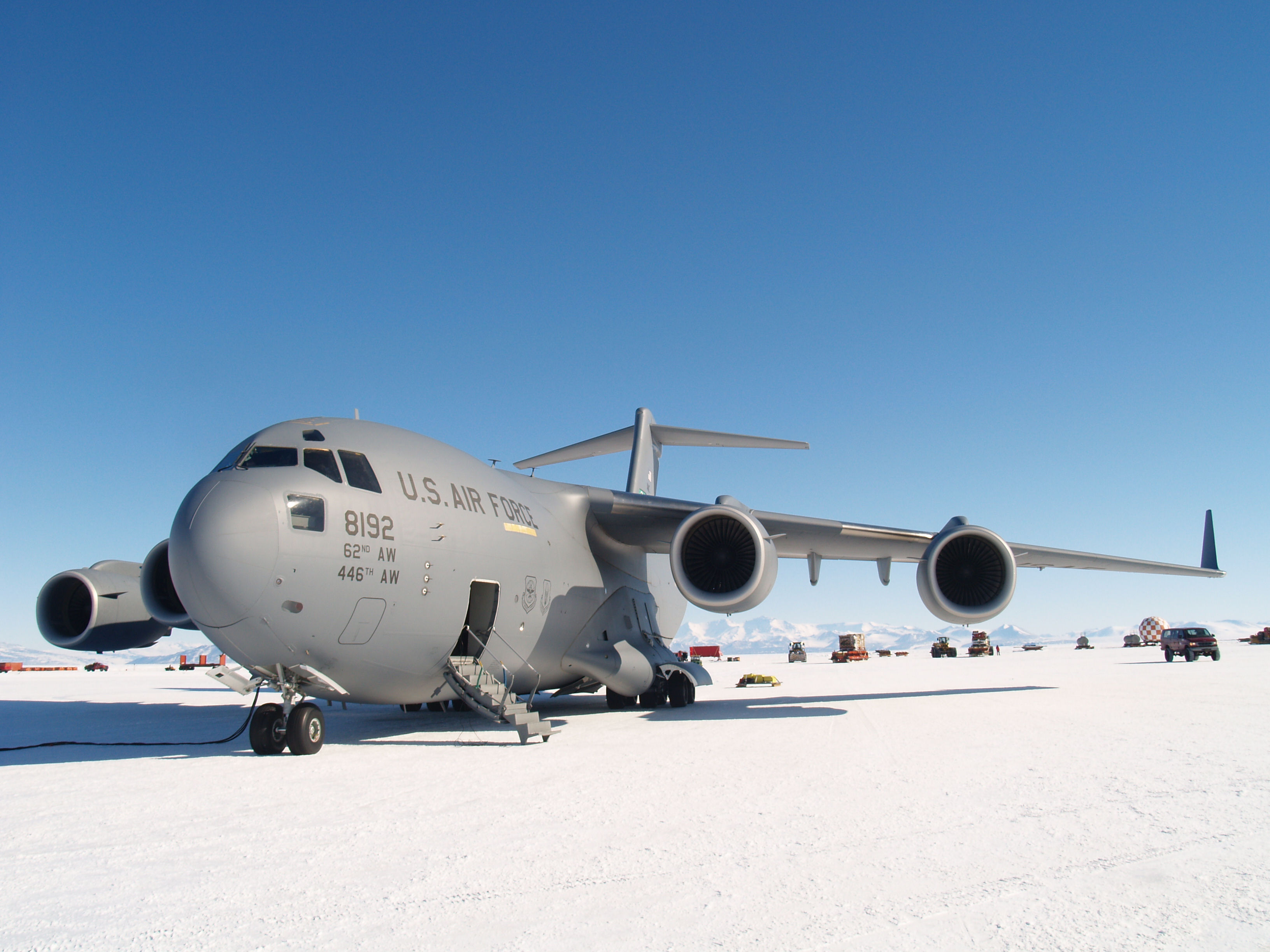 A C-17 sits on the ice runway at McMurdo Station, Antarctica, Nov. 21, 2011. The C-17 is a part of Operation Deep Freeze which provides airlift support to the National Science Foundation. The NSF manages the United States Antarctic Program. Courtesy photo